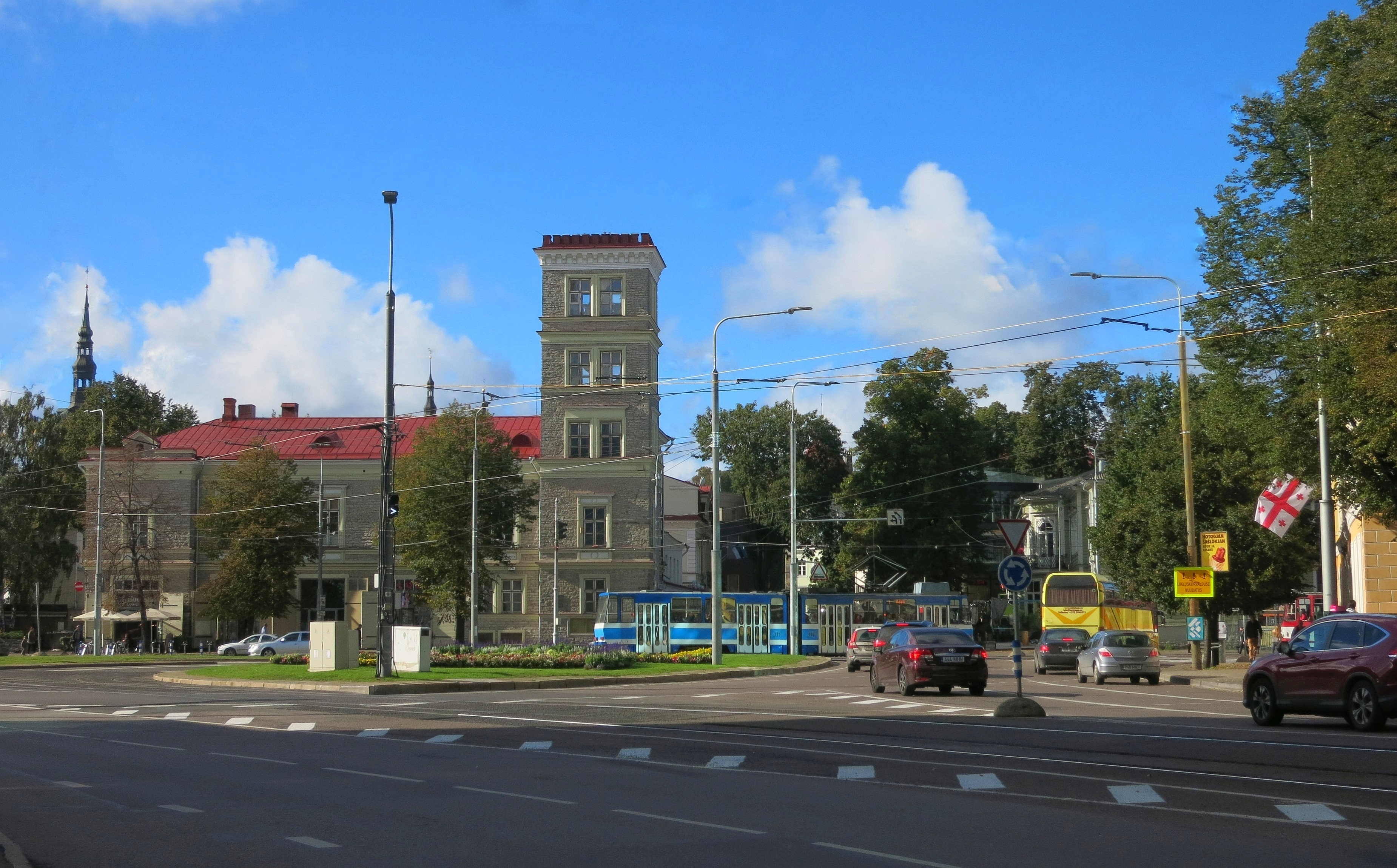 In the foreground: Viru Square roundabout; in the background: previous fire station, current nightclub Venus Club (Tallinn, Estonia).